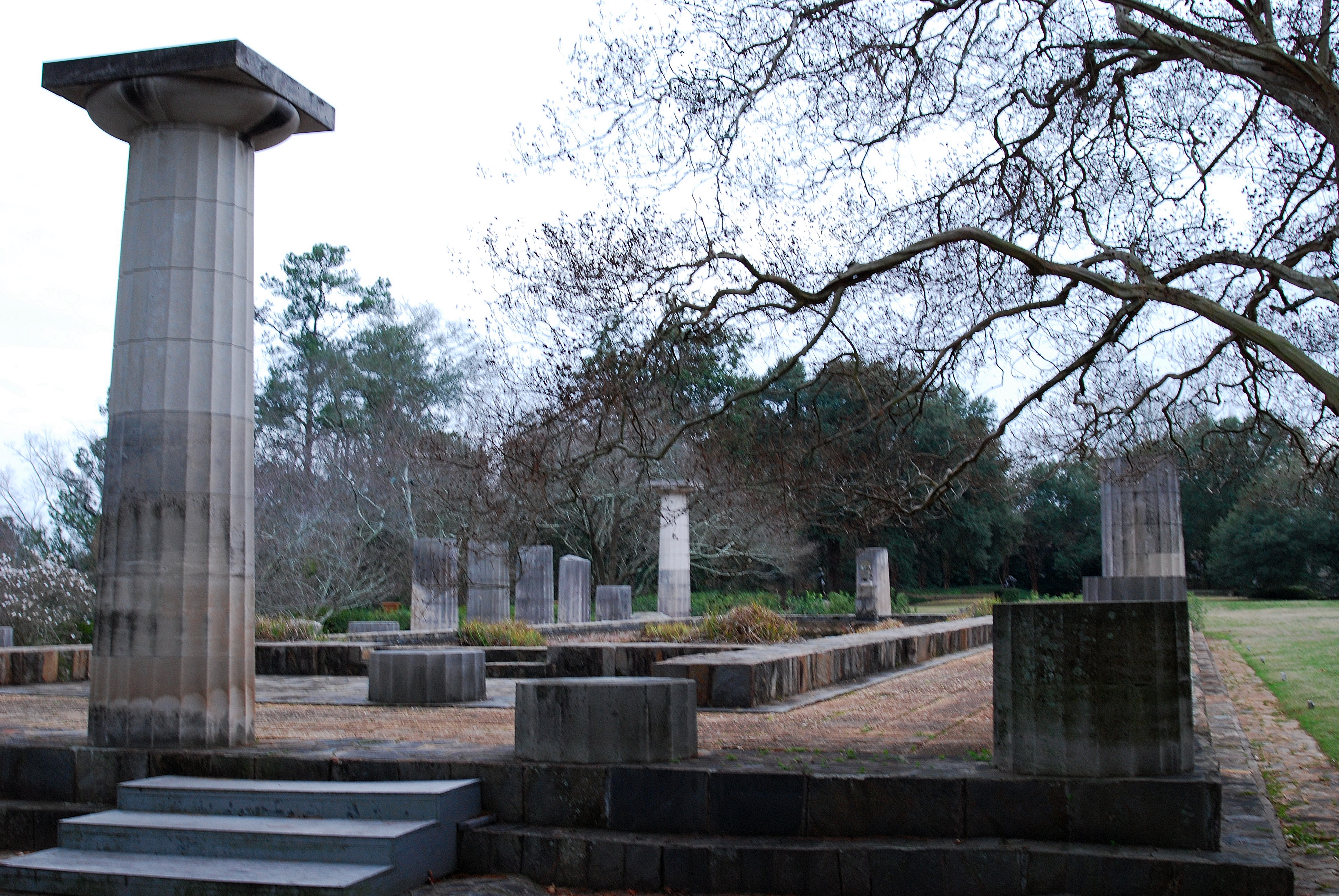 Temple of Hera Ruins in Jasmine Hill Gardens in Wetumpka, Alabama. This is an exact replica (with the exception of the pool of water) of the Temple of Hera at Olympia, site of the ancient Olympic games. Just as it did in ancient times, the lighting of the Olympic torch takes place at the altar of Hera, located in front of the temple, a short distance from the Olympic Stadium. The Temple of Hera, is the best example of the transition between the earliest wooden temples and their successors, constructed of stone. The Temple’s original wooden elements dating from the 8th Century B.C. were replaced with stone ones over a period of many years. Finally destroyed by an earthquake, the Greek temple was partially rebuilt in 1874 and now appears in the exact state of restoration, which you see at Jasmine Hill Gardens and Outdoor Museum.